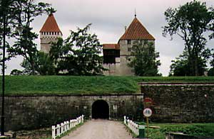 Estonia, Island Saarema, old castle in Kuressaare.